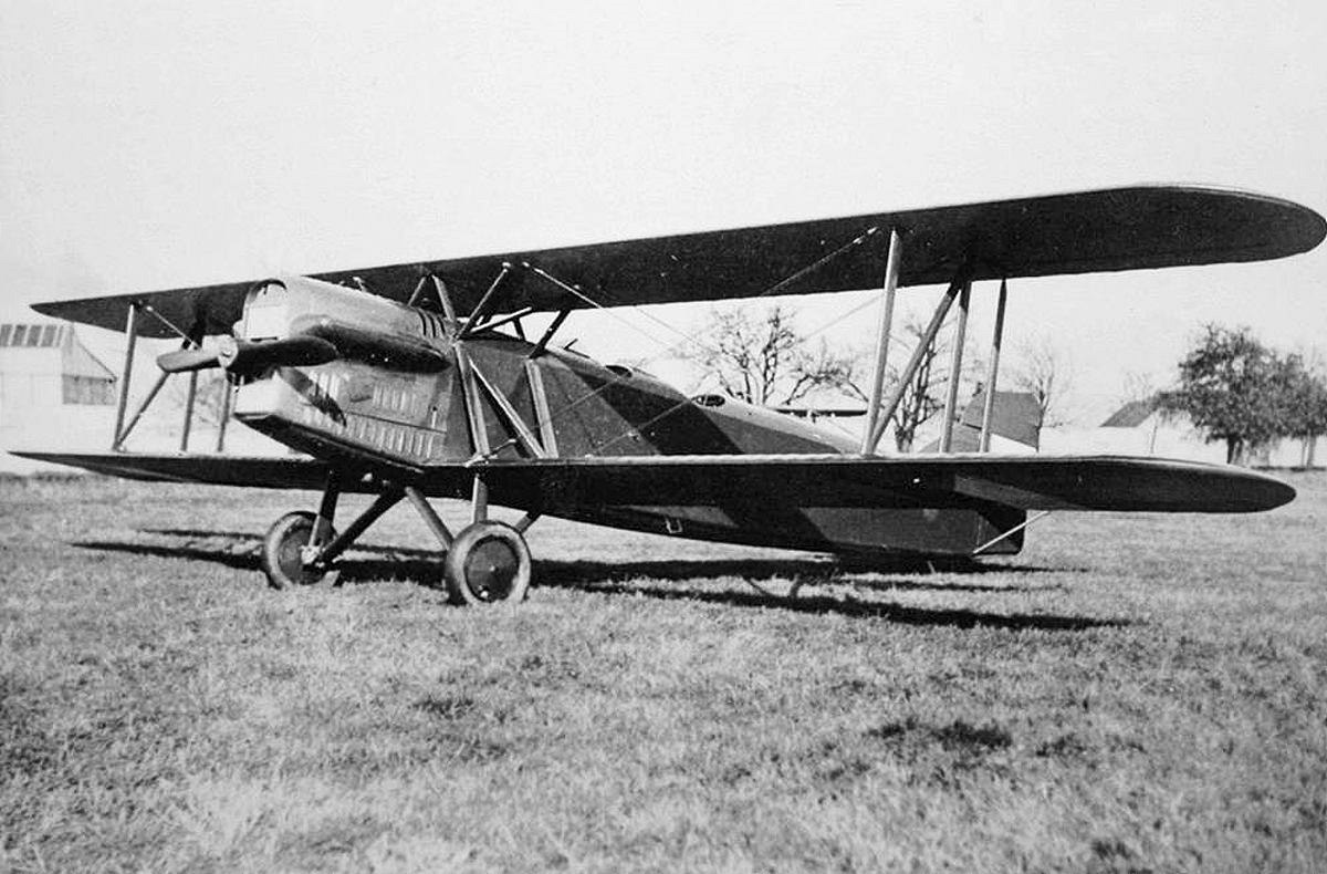 Letov Š-16 first prototype